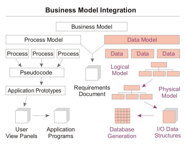 Data modeling as part of the business process integration, based on File:Process and data modeling.jpg